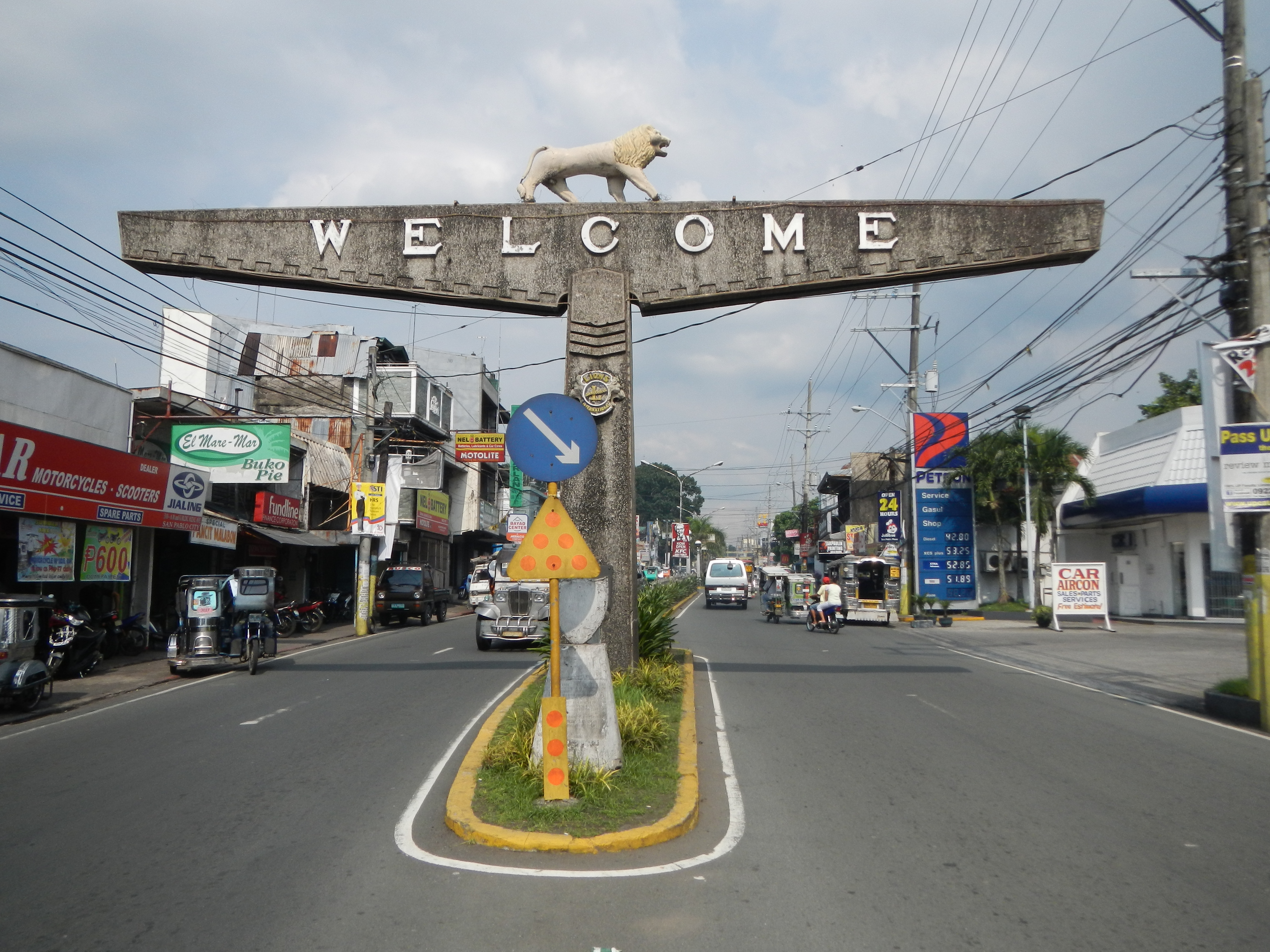 Welcome Arch and Downtown City Proper, Business Center, Centro, including Plaza Rizal in -- San Pablo, Laguna [1] [2] [3] [4] [5] 14° 4' 11.11" N 121° 19' 34.88" E [6] Coordinates: 14°4'10"N 121°19'36"E [7] List of Parishes of the Roman Catholic Diocese of San Pablo Rector: Msgr. Melchor A. Barcenas, VGParochial Vicars: Father Michael V. Brosas Father Rico A. Villareal - EPISCOPAL DISTRICT III Episcopal Vicar: Msgr. Mario Rafael M. Castillo, HP - Vicar Forane: Father Eduardo E. Arupo [8] -- The City of San Pablo (Filipino: Lungsod ng San Pablo), a first class city in the southern portion of Laguna province, Philippines, is one of the country's oldest cities - more popularly known as the "City of Seven Lakes", referring to the Seven Lakes of San Pablo [9](Filipino: Lungsod ng Pitong Lawa): Lake Sampaloc [10] (or Sampalok), Lake Palakpakin, Lake Bunot, Lakes Pandin and Yambo, Lake Muhikap, and Lake Calibato. San Pablo City was part of the Roman Catholic Archdiocese of Lipa since 1910. On November 28, 1967, it became an independent diocese and became the Roman Catholic Diocese of San Pablo.